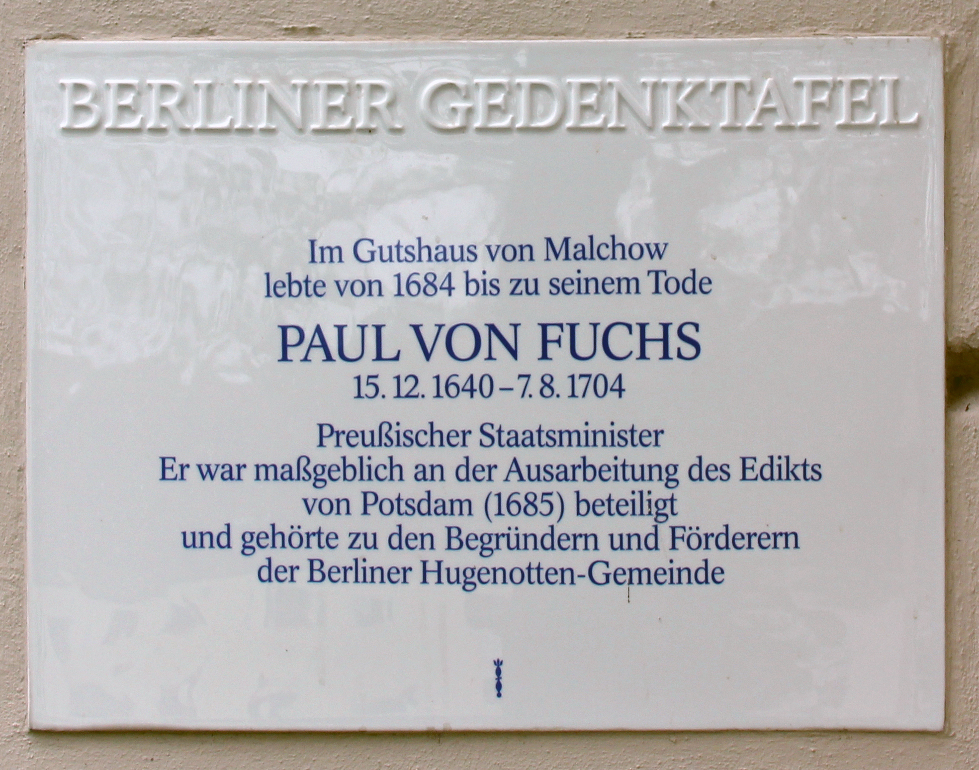 Berlin memorial plaque, Paul von Fuchs, Dorfstraße 9, Berlin-Malchow, Germany